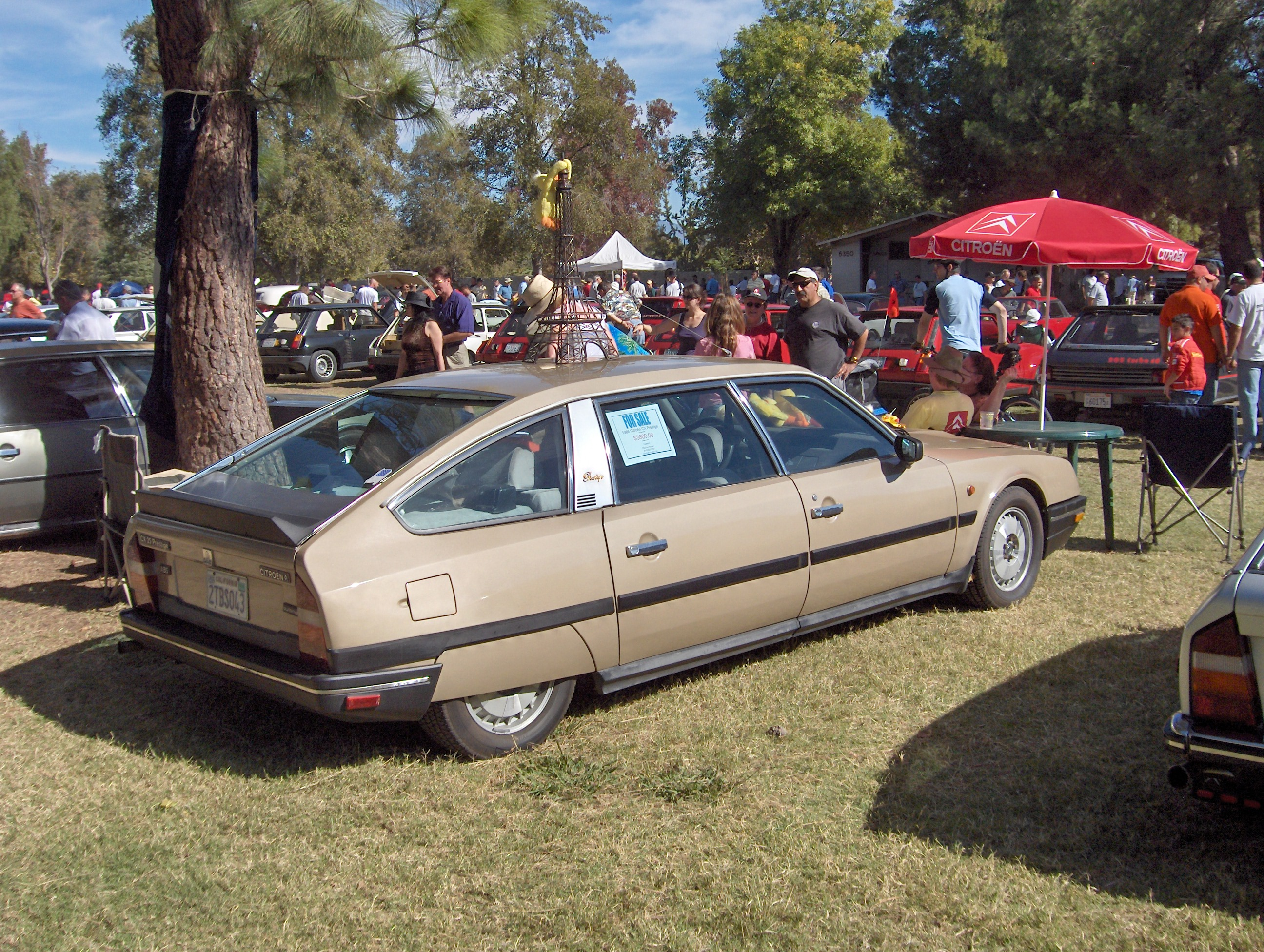 Own photo - public location.